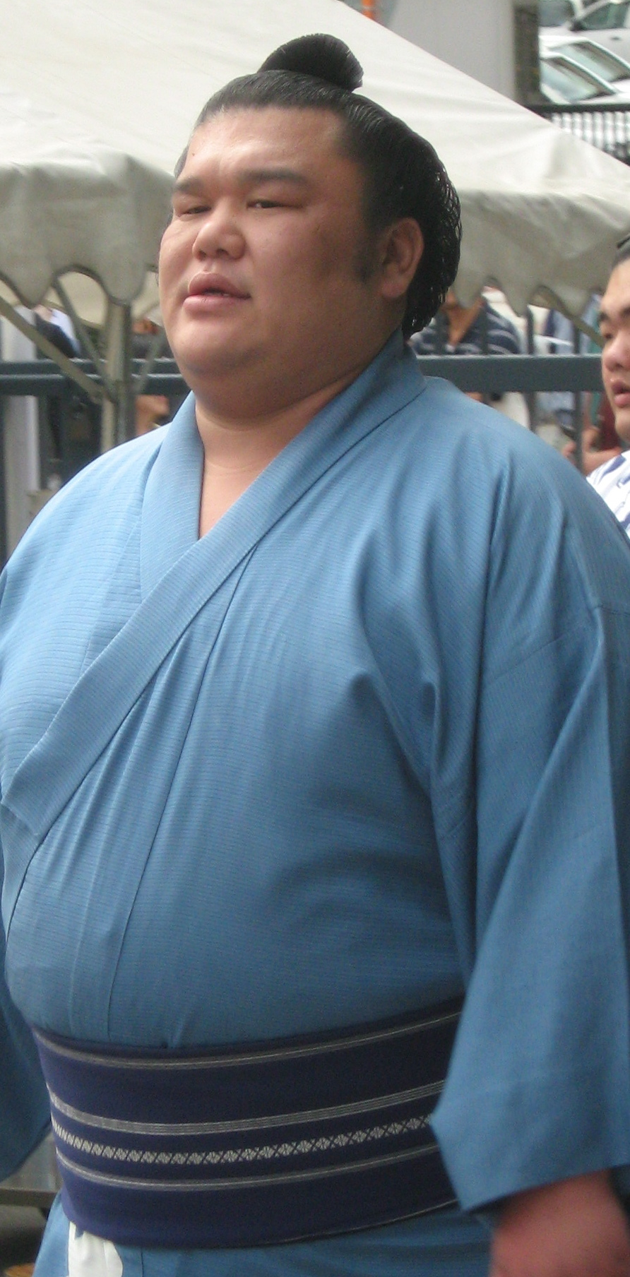 taken at Sep 2008 tournament